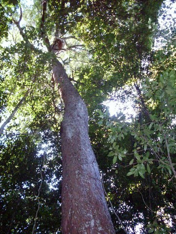 Syzygium paniculatum measured with an 88 cm_trunk_diameter at breast height, approximately 30 metres tall, northern Illawarra, Australia. Identification confirmed by Anders Bofeldt